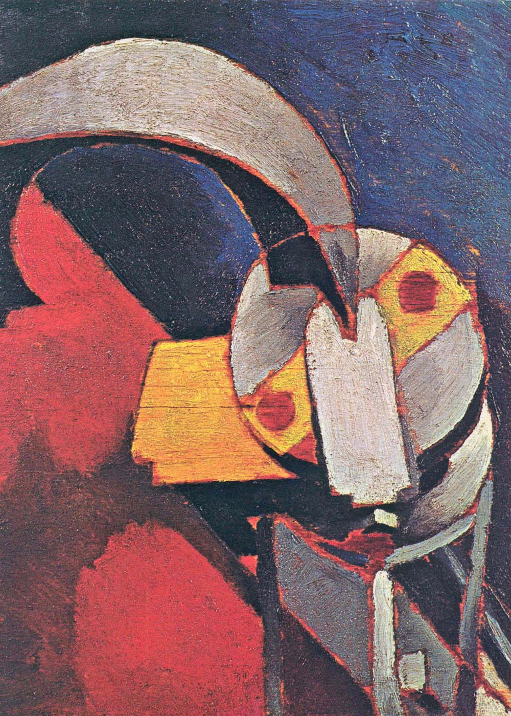 Machine Form, 1916, painting by Morton L. Schamberg.